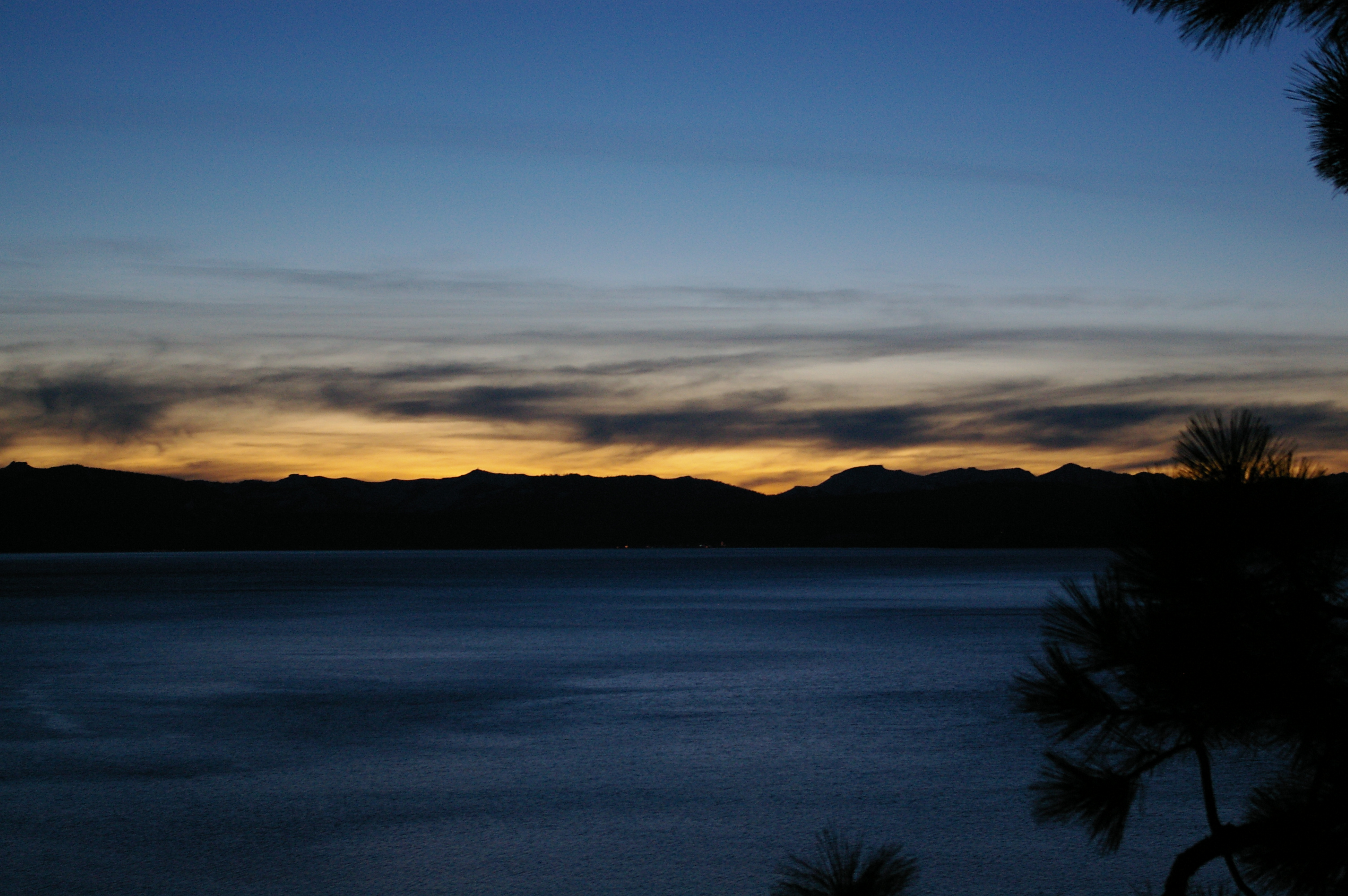 Lake Tahoe at sunset as seen from Nevada State Route 28